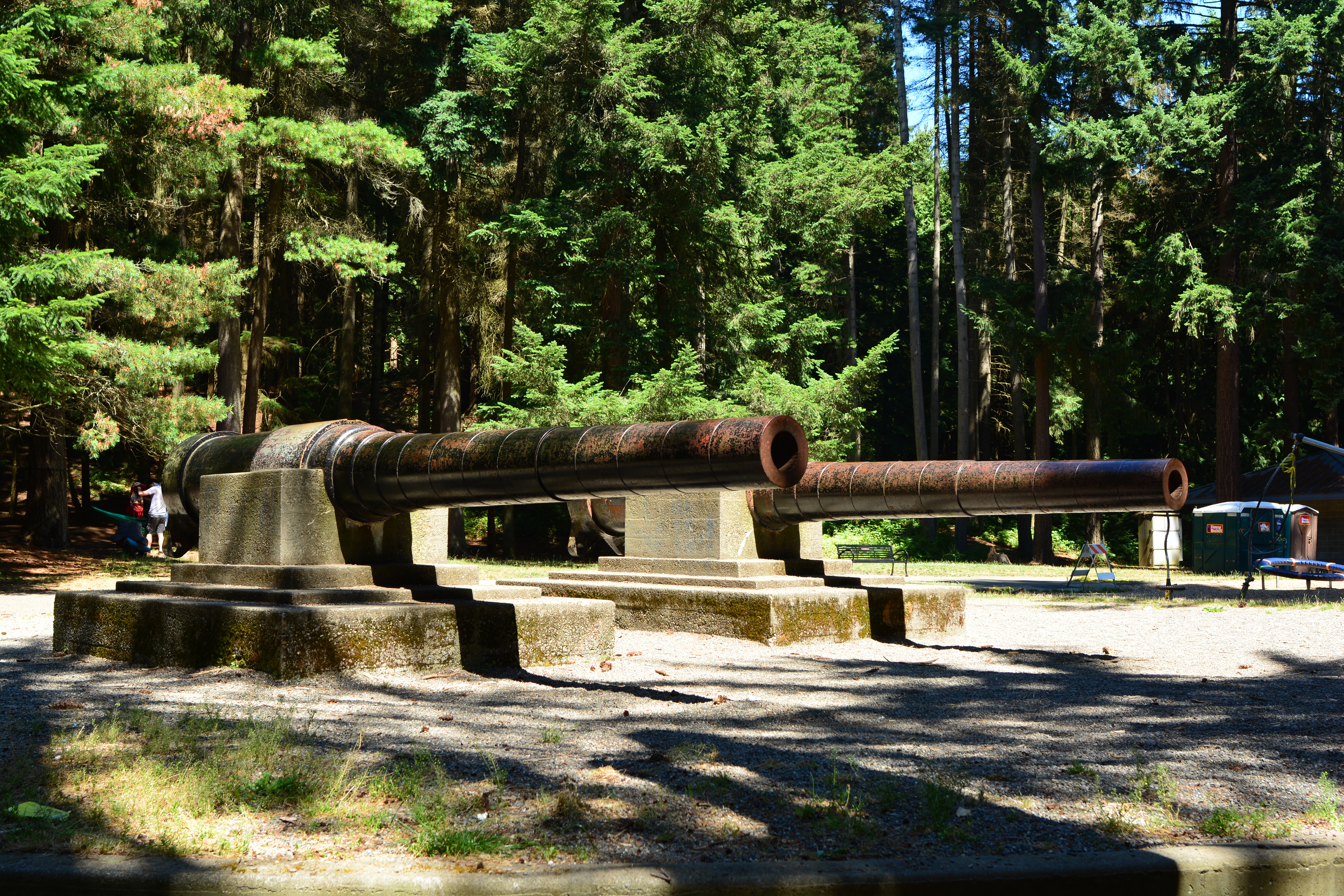 Guns from the USS Boston in Hamlin Park, Shoreline, Washington, U.S. Both guns are described as "8-Inch, 30-Caliber".